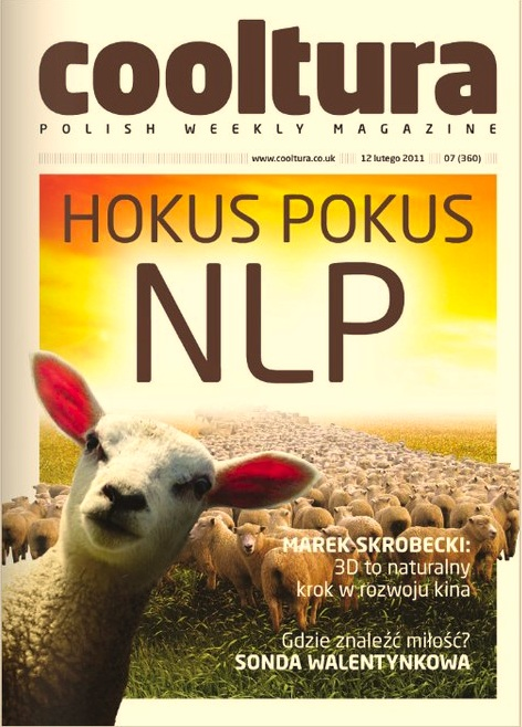 Editors of the Polish Cooltura Weekly Magazines, allows you to use this picture for all users. or